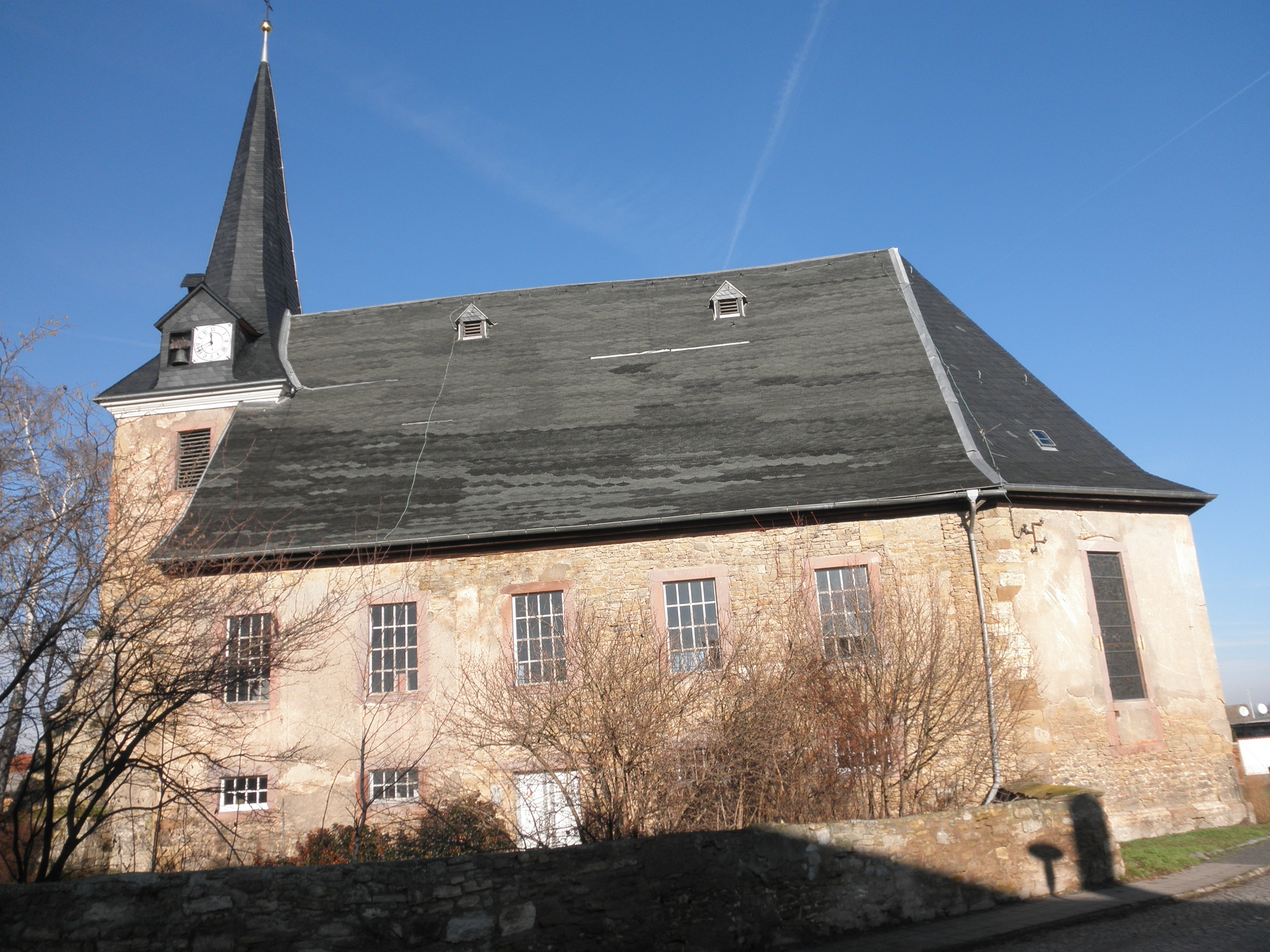 Church in Frohndorf (Sömmerda) in Thuringia